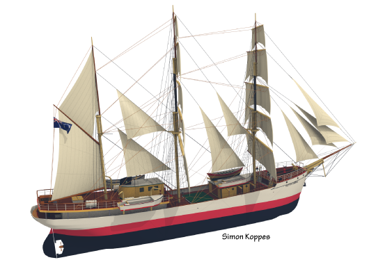 Drawing of the Canadian sailing ship Picton Castle with the flag of the Cook Islands